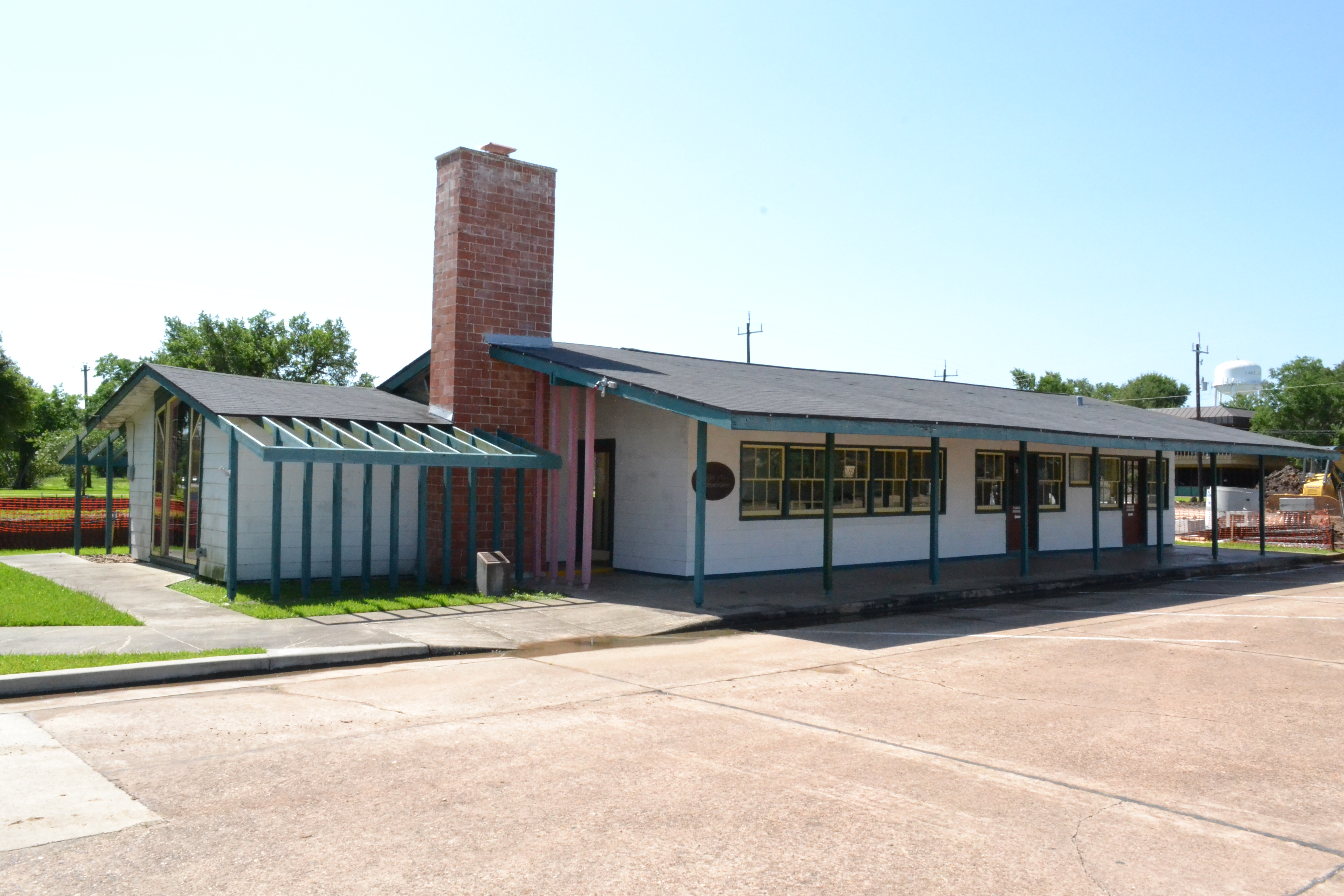 Alden B. Dow Office and Lake Jackson City Hall in Lake Jackson, Texas. Listed on the National Register of Historic Places.